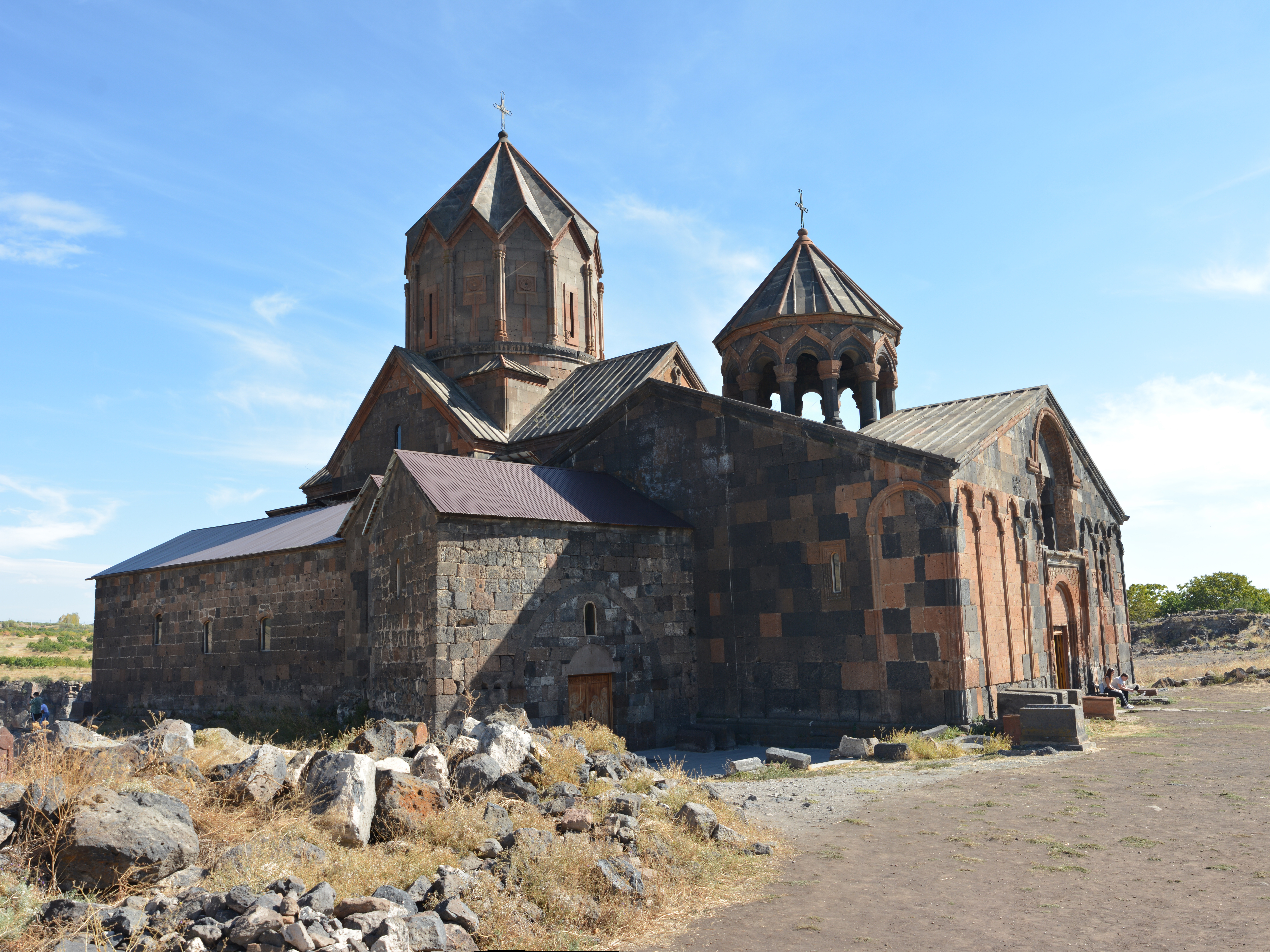 Monastery Hovhannavank in Armenia